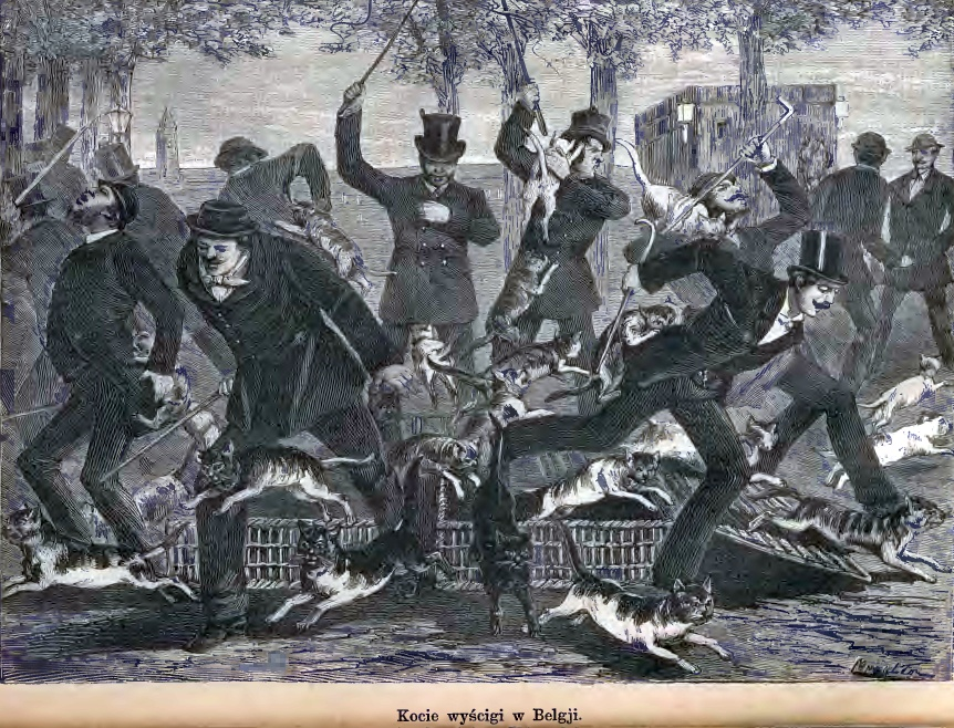 Cat racing